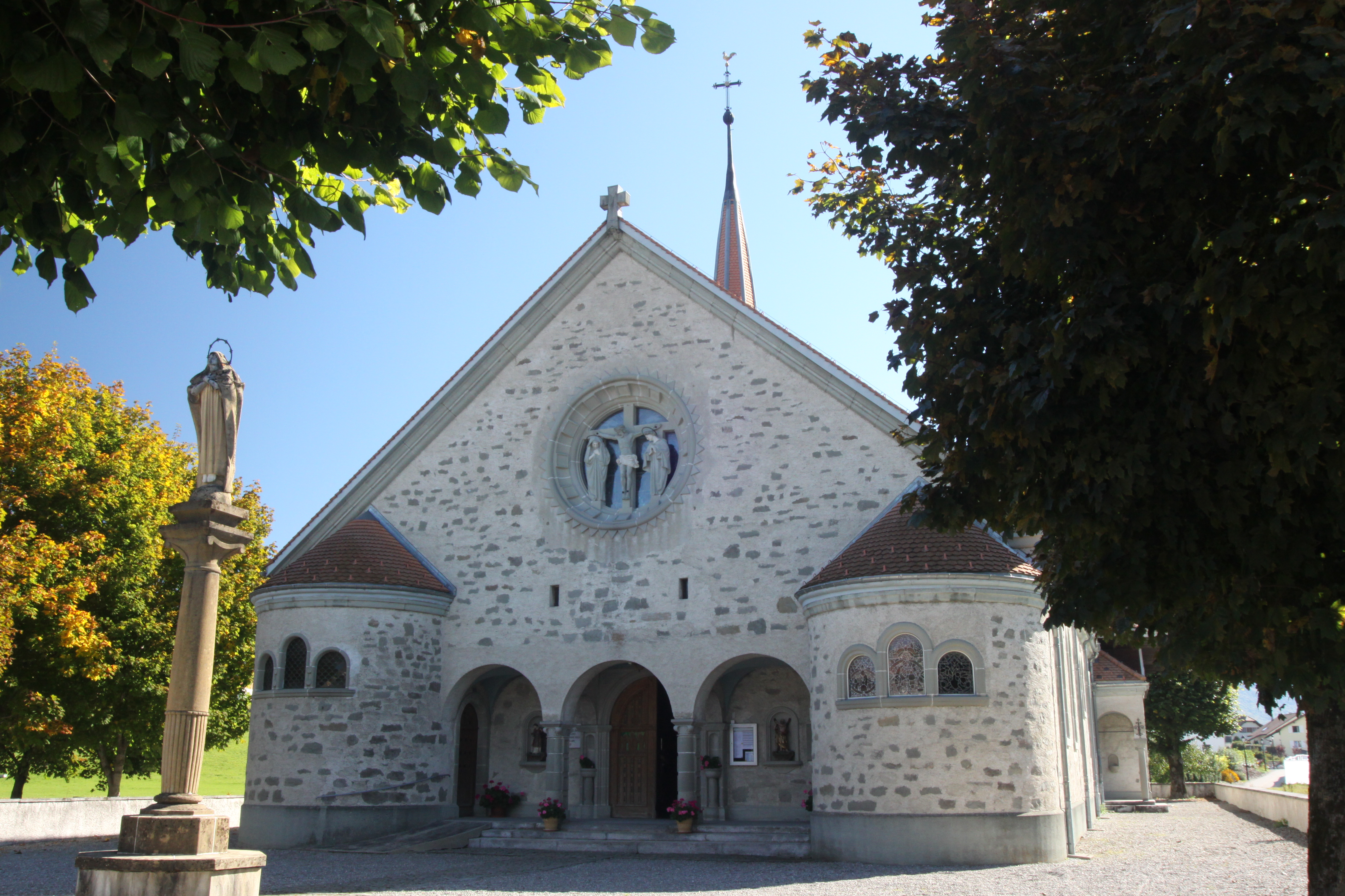 Church of Notre Dame of the Assumption, Au Village 203, Echarlens